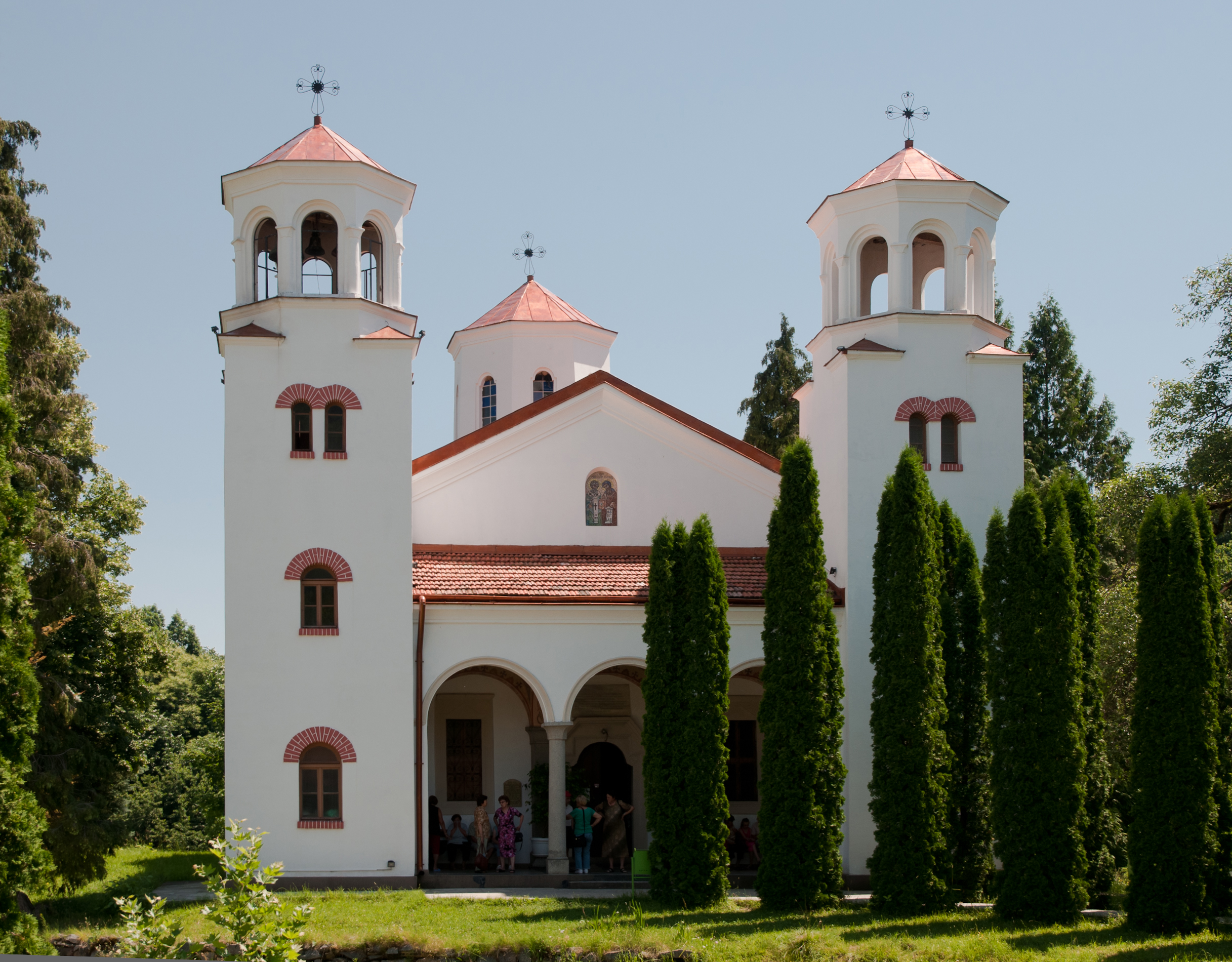 Saints Cyril and Methodius Katholikon (Church) in Klisura monastery near the town of Varshets, Bulgaria.